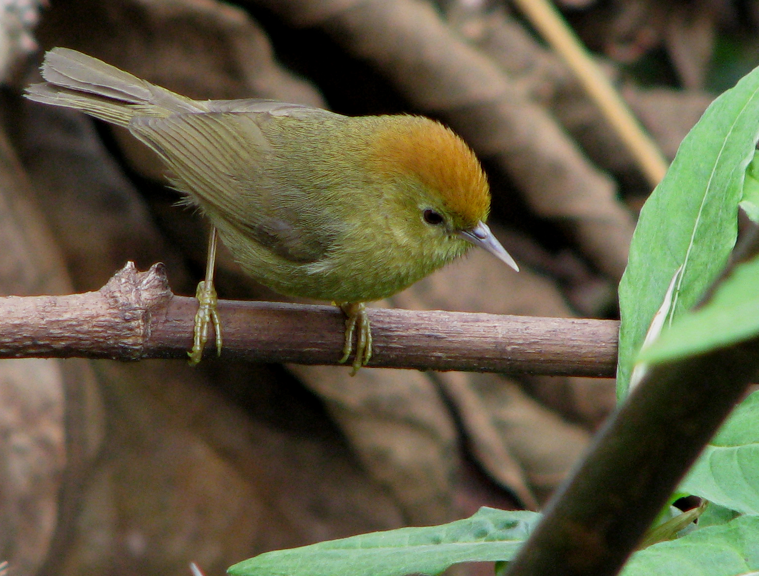 Rufous-capped Babbler, Eaglenest Wildlife Sanctuary